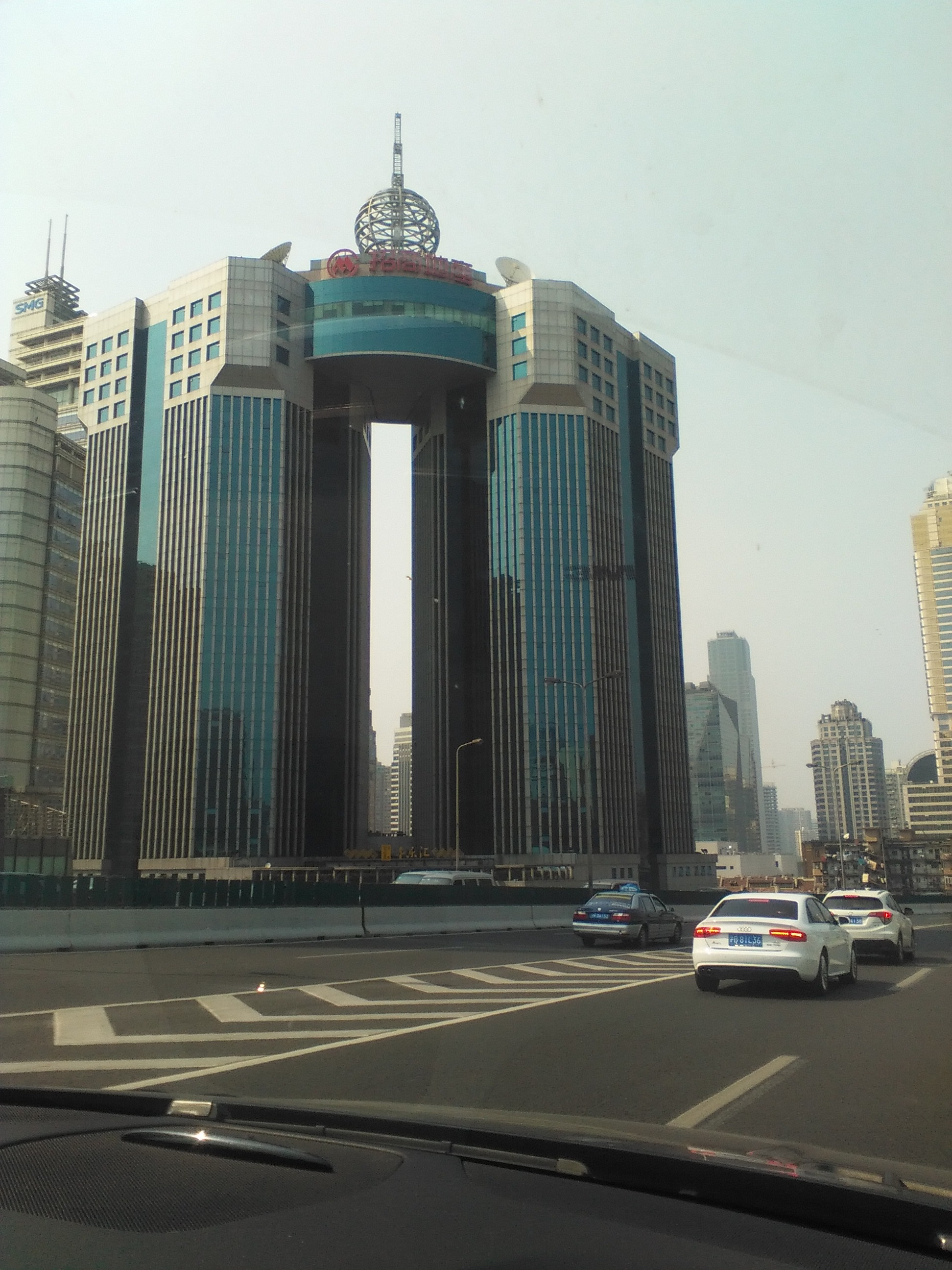 CMG Square in Jing'an District, Shanghai, taken from Nanbei (South-North) Elevated Road. Headquarters of Shanghai Media Group (SMG), a major media group in China, or Shanghai Television (STV) building, is near CMG Square. 中文（中国大陆）: 位于上海市静安区的招商局广场（从南北高架拍摄）。中国主要的媒体集团上海广播电视台（上海文化广播影视集团）的总部（或称上视大厦）位于招商局广场附近。